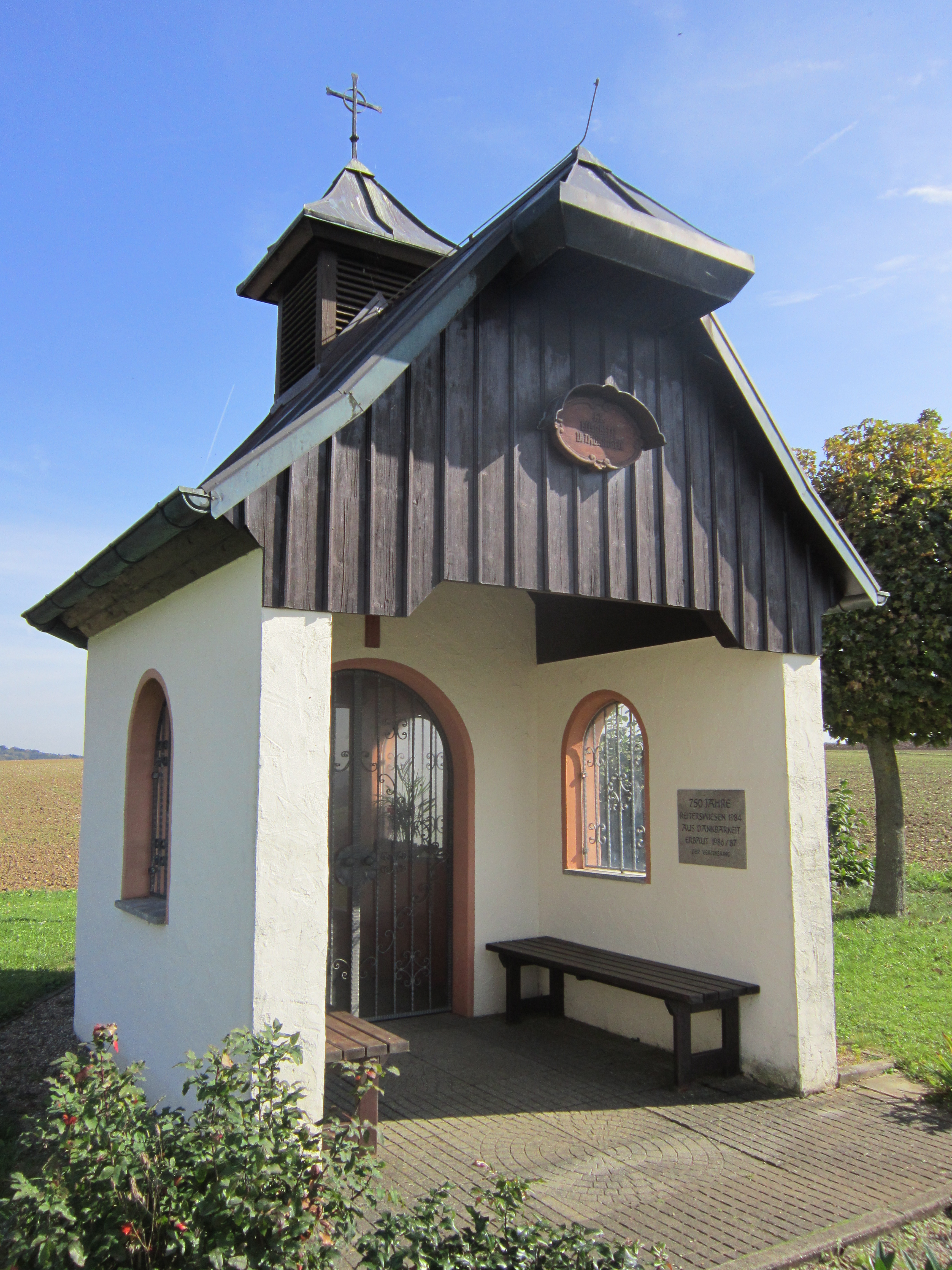 The Elisabethkapelle in Reiterswiesen, a quarter of the German spa town of Bad Kissingen in Lower Franconia (Bavaria).